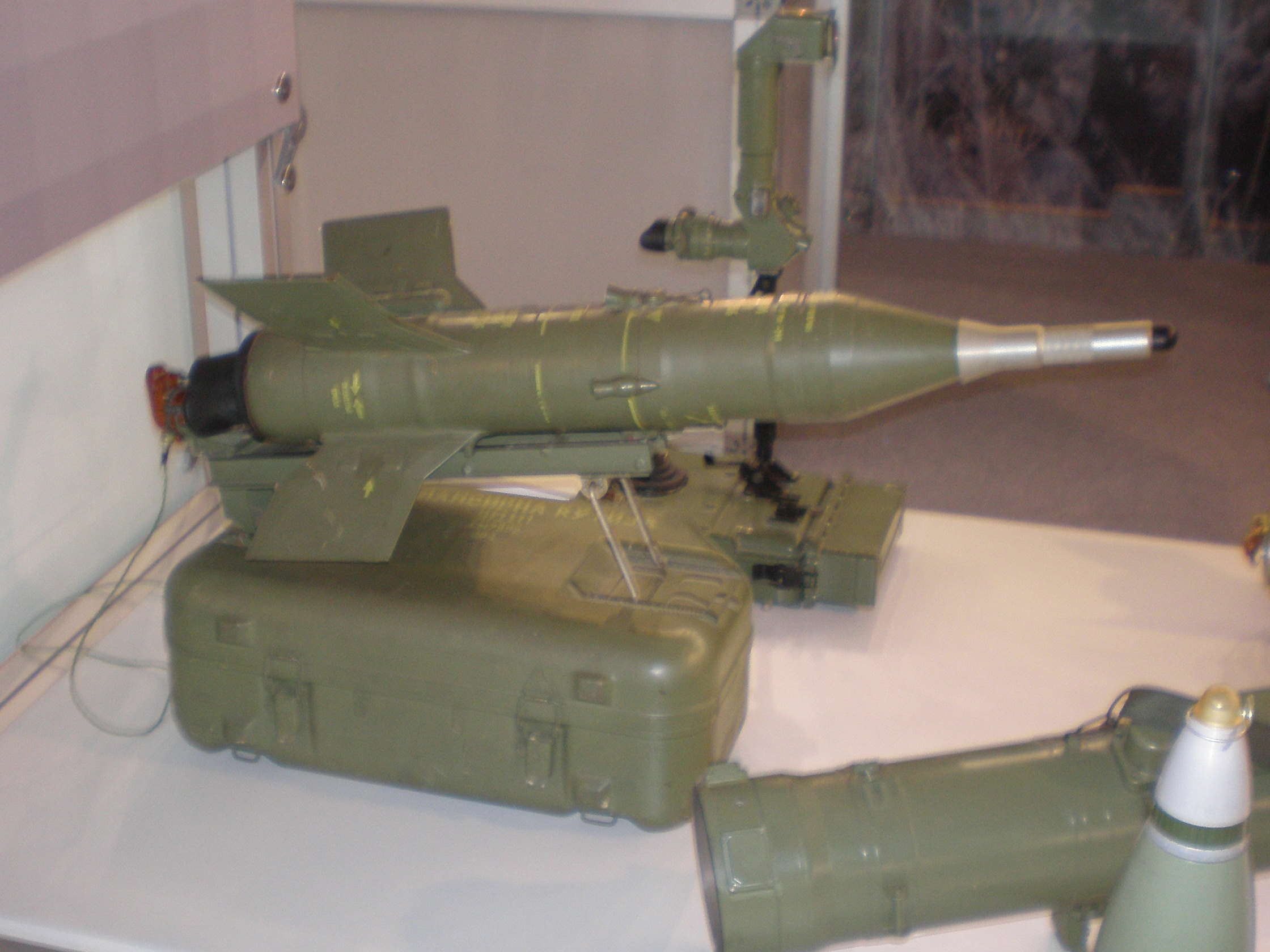 Serbian-made modified Malyutka wire-guided anti-tank missile on display at "Partner 2009" military fair.